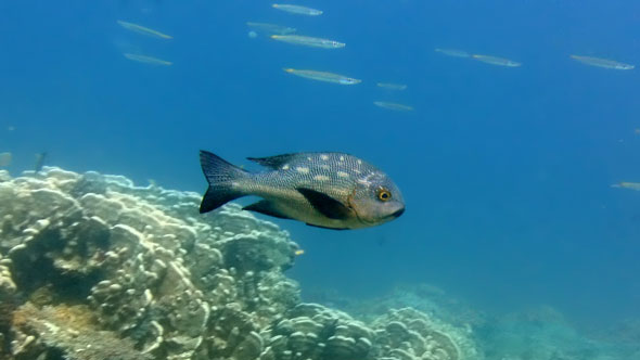 Black snapper El Nido